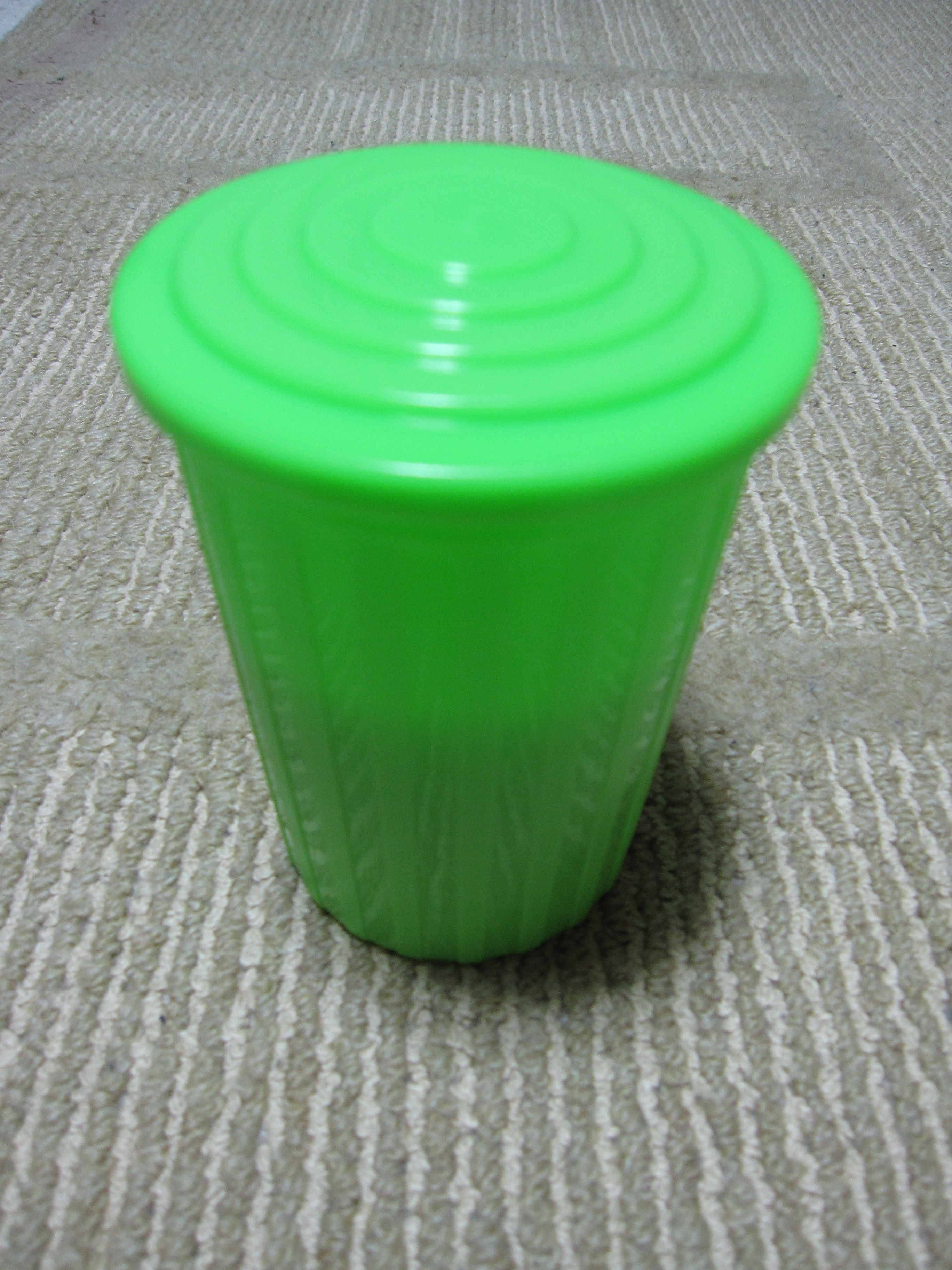 Green Slime Mattel